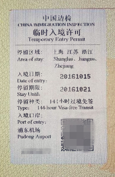 Temporary Entry Permit for 144-hour Visa-free Transit visitors in China, which issued in Pudong Airport, Shanghai. 中文（中国大陆）: 由上海浦东机场边检站签发的贴纸版144小时过境免签许可